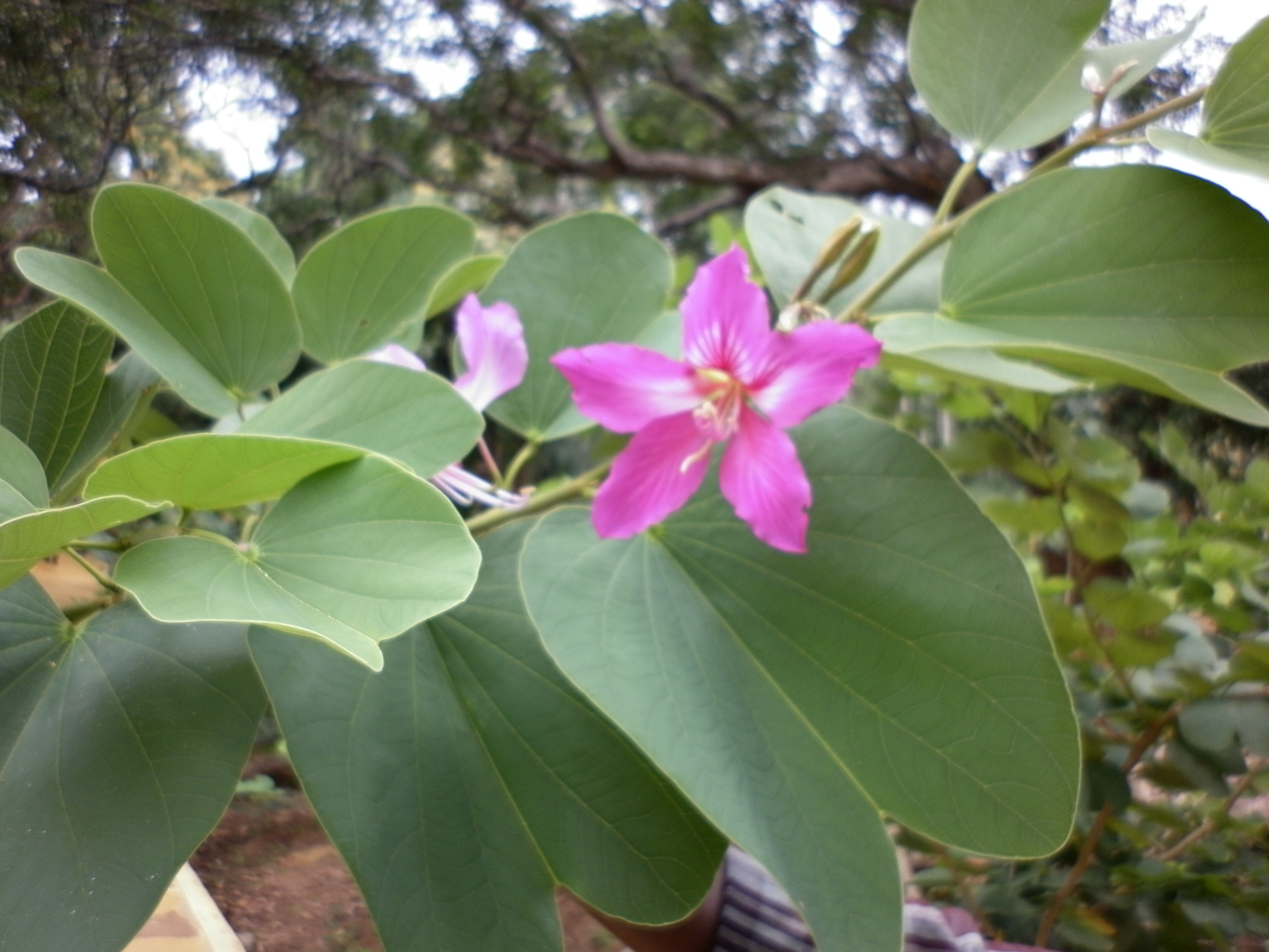 This was taken at coutallam